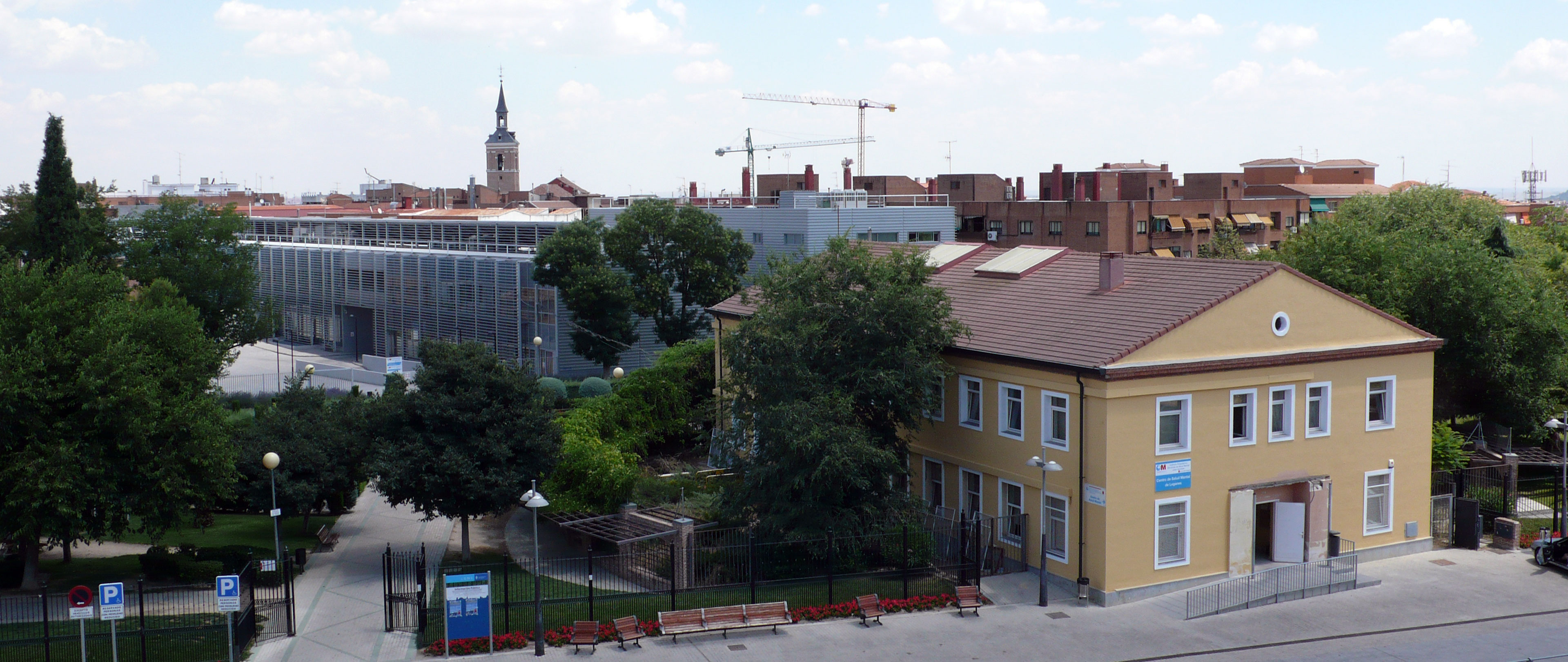 View of Leganés city center.